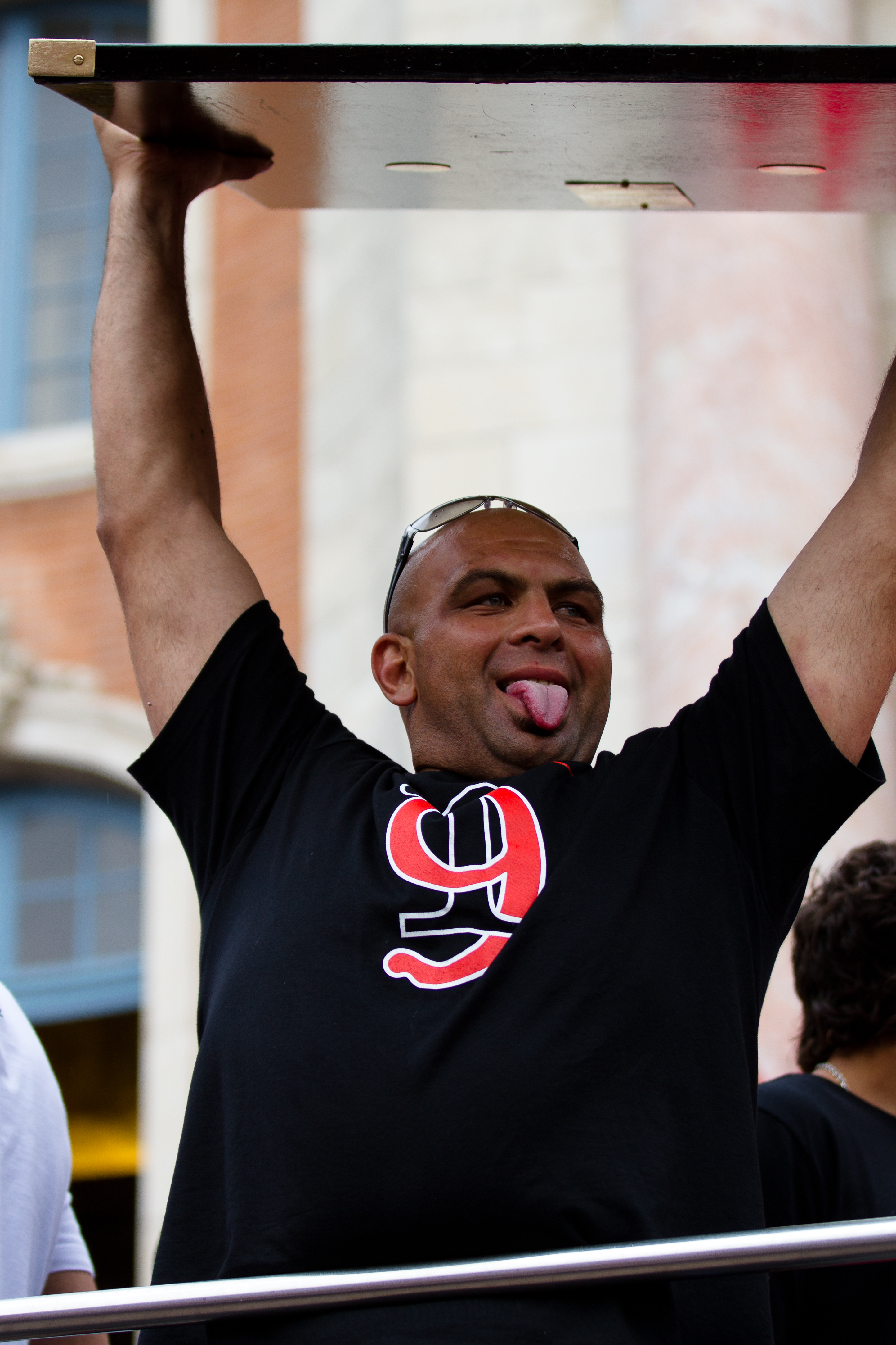 Gurthrö Steenkamp in the Capitole de Toulouse to celebrate the 19th national championship title of the Stade toulousain.